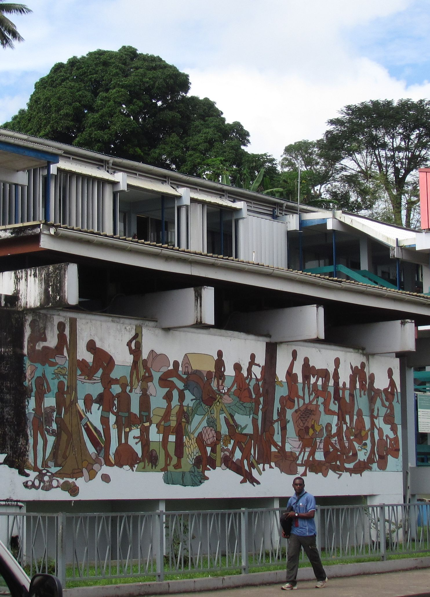 Wall painting in Main Street, Port Vila, Vanuatu